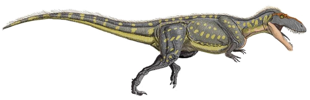 The megalosaurid dinosaur Torvosaurus tanneri was a huge theropod from the late Jurassic of North America (and possibly Portugal, Europe).